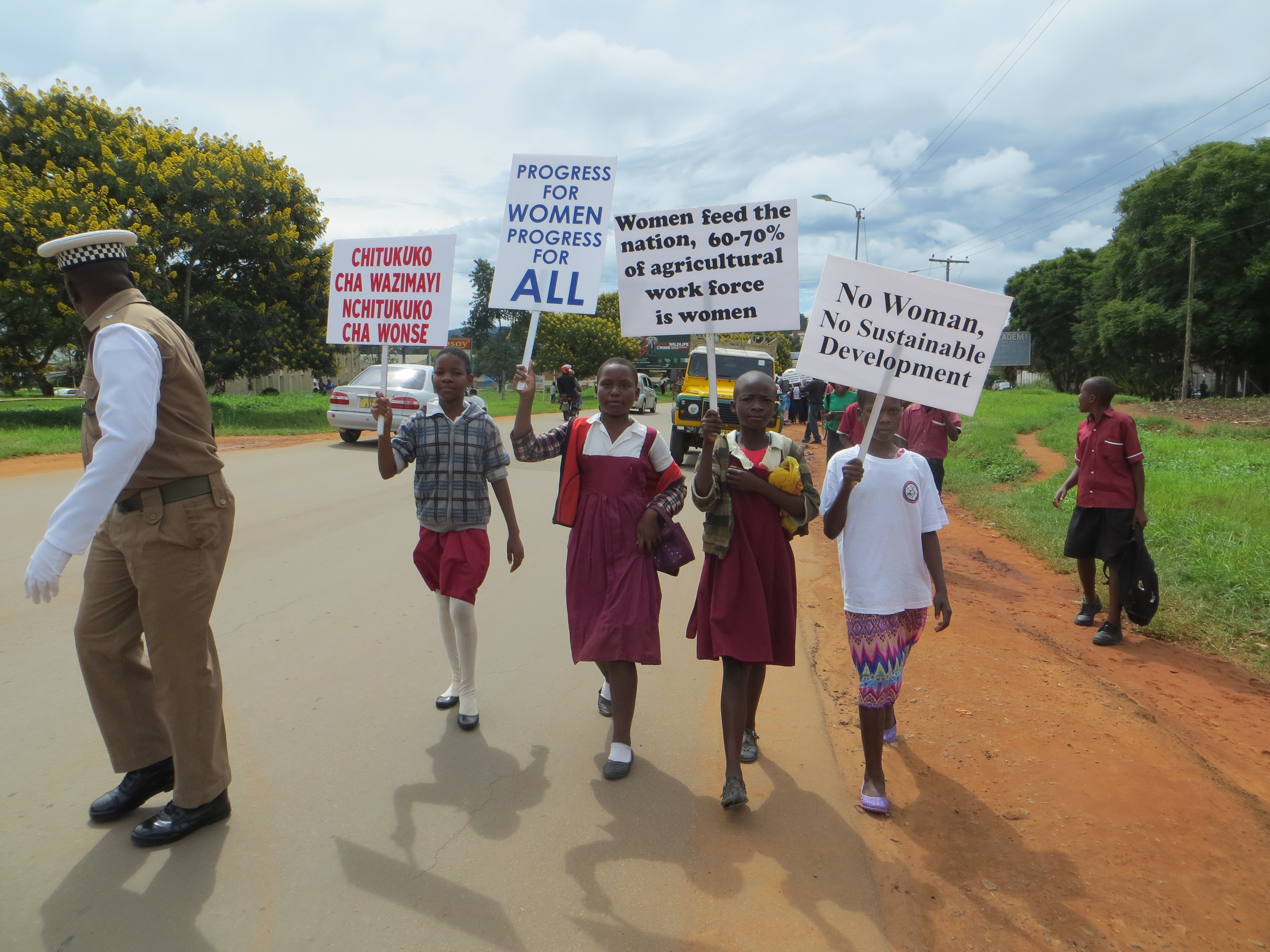 Four girls hold up banners to show solidarity with women on the 2016 International Women's Day celebrations funded by the Development Fund of Norway in Mzuzu, Malawi. A traffic police officer makes sure there road is not obstructed. This is an image of "African people at work" from Malawi